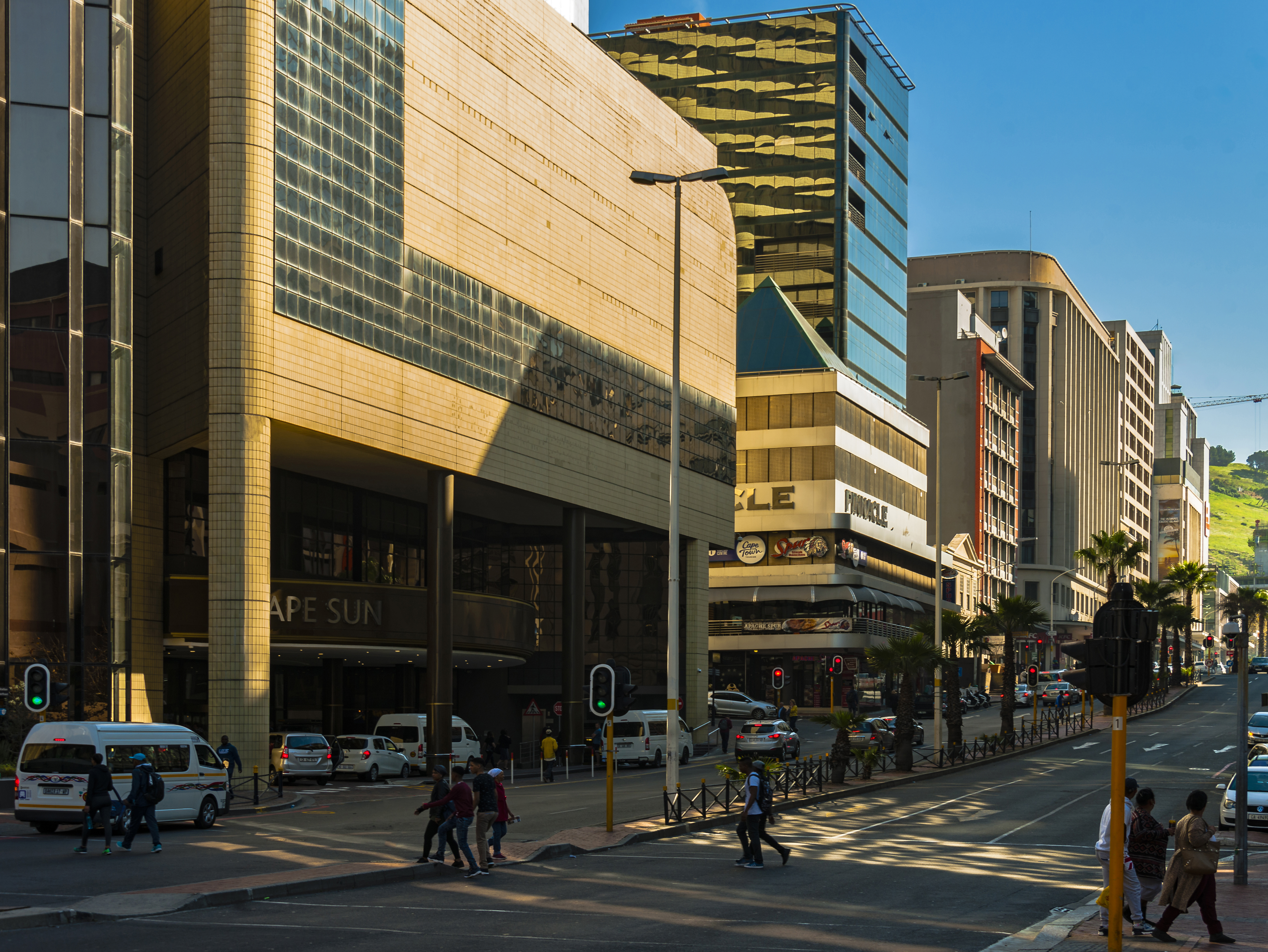 Looking south down Strand Street in Cape Town during lunch break on the second day of Wikimania 2018, held at the Cape Sun Hotel across the street at left.